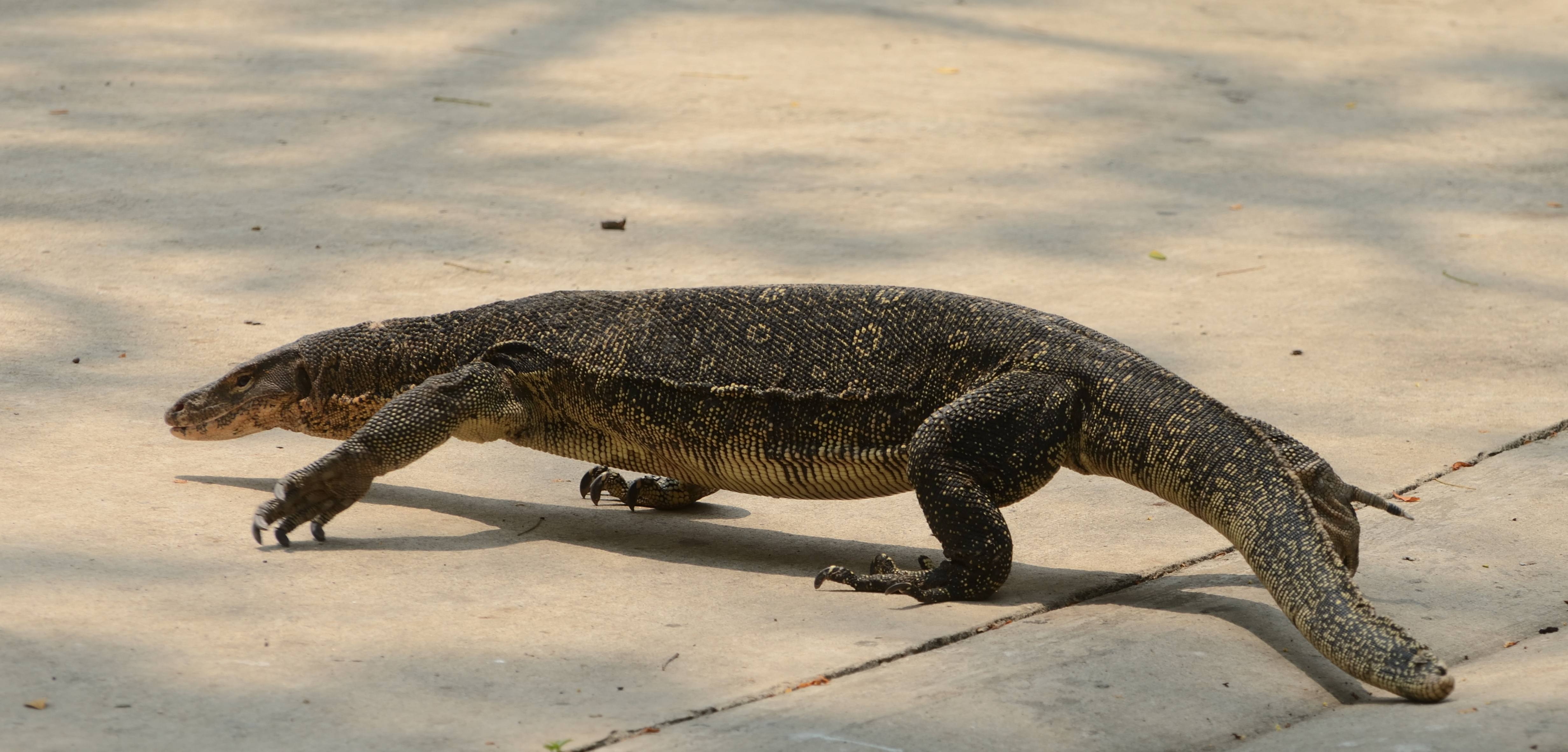 Water monitor walking on the ground